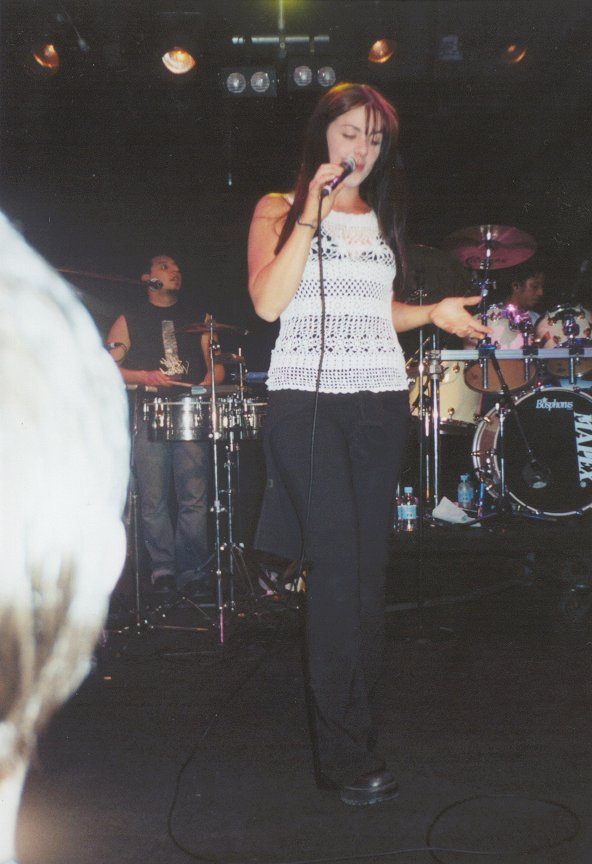 Australian singer Vanessa Amorosi performing live in 2002